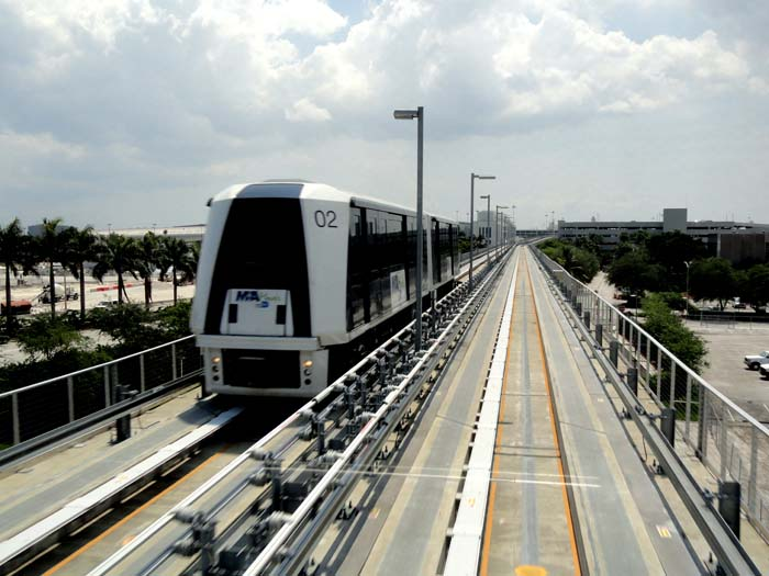 The MIA Mover automated people mover en route to the MIA Station while passing another tram at Miami International Airport.